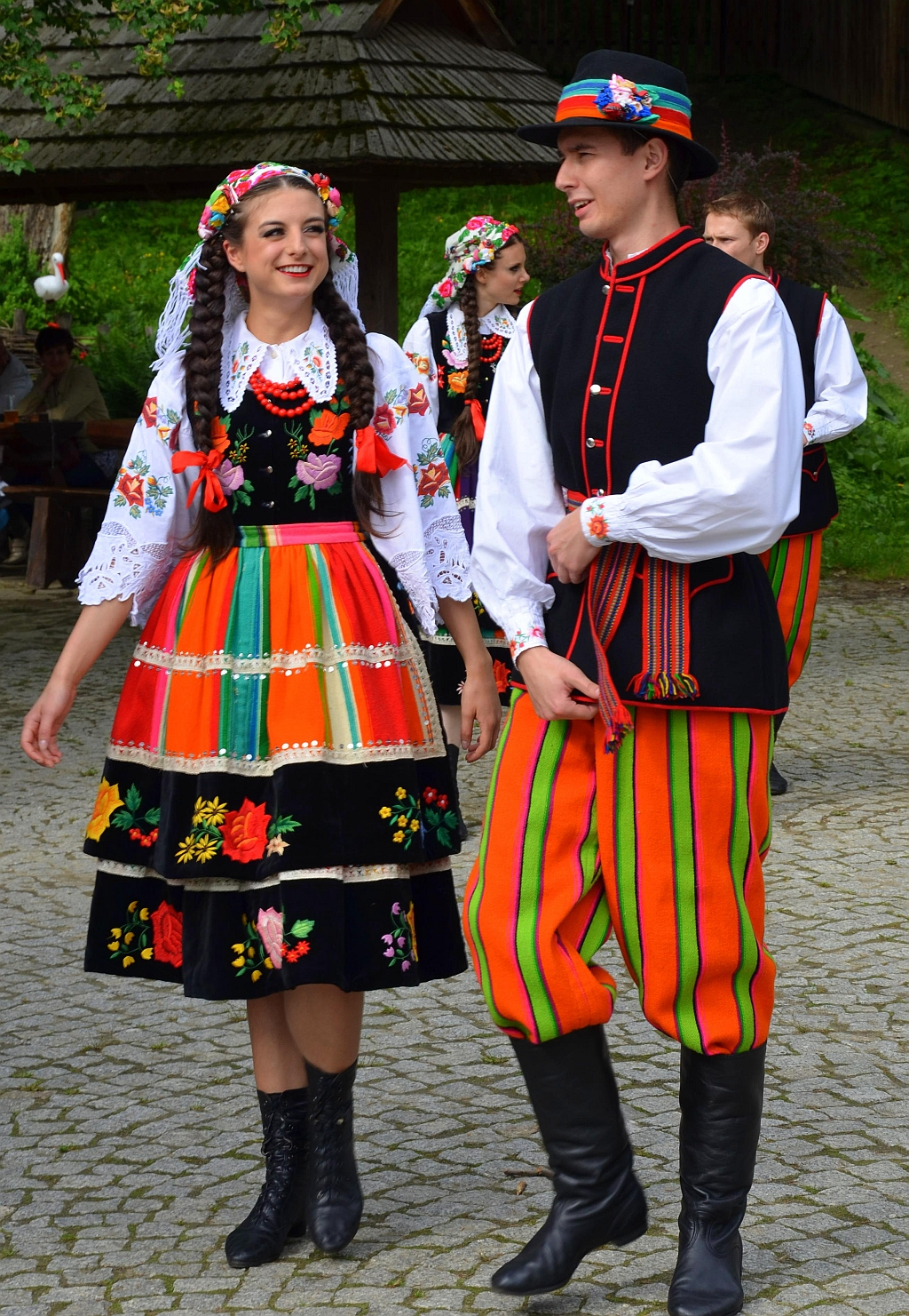 Funfairs in Skansen in Sanok